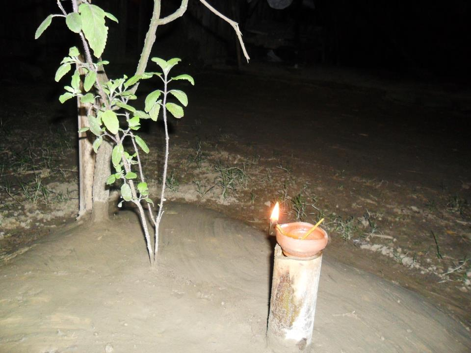 Kati Bihut Tuloshi Tolor Saki